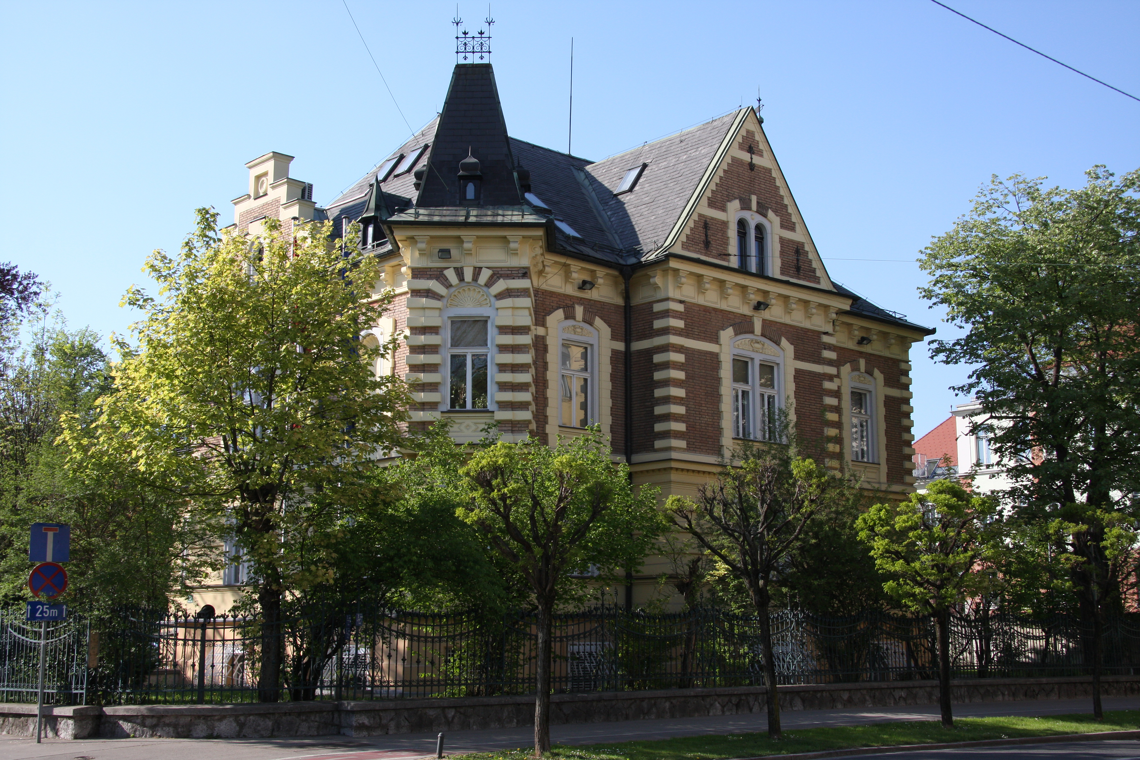 Embassy of the Republic of Austria in Ljubljana. The villa was built before 1910 in the Neo-Gothic style.